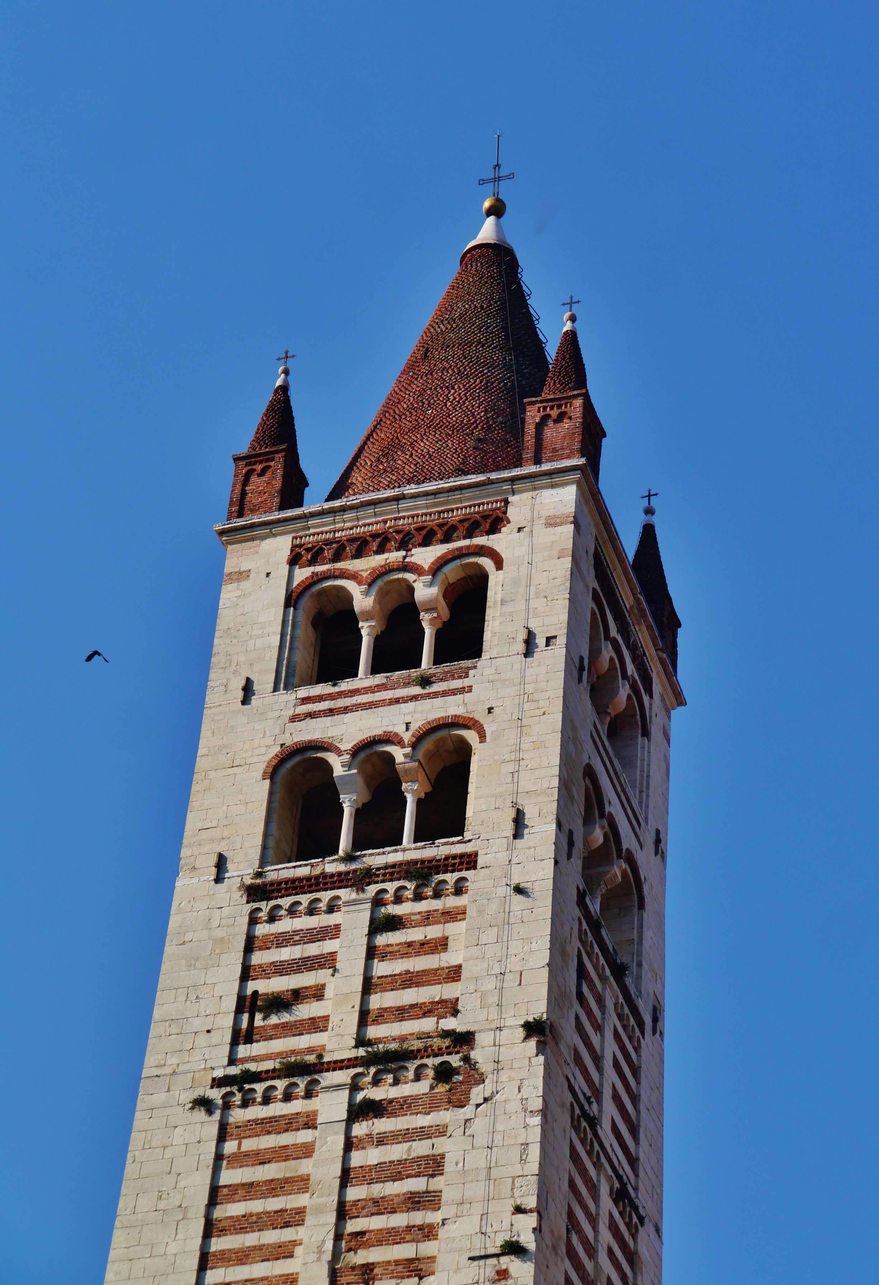 Tower of the Basilica of St. Zeno the Great, Verona, Province of Verona, Region of Veneto, Italy